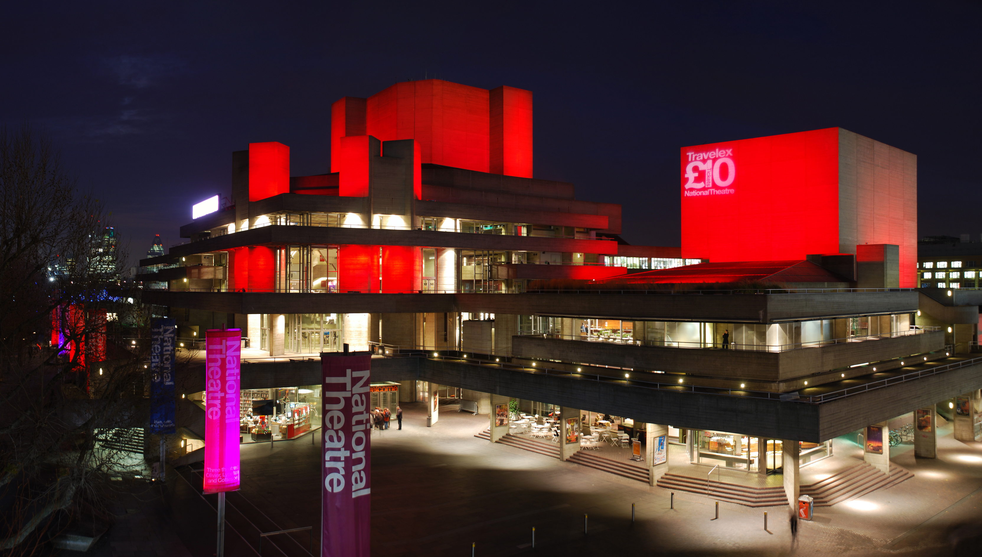 Photograph of the Royal National Theatre, London, England. Nikon D40X 18-135mm lens.